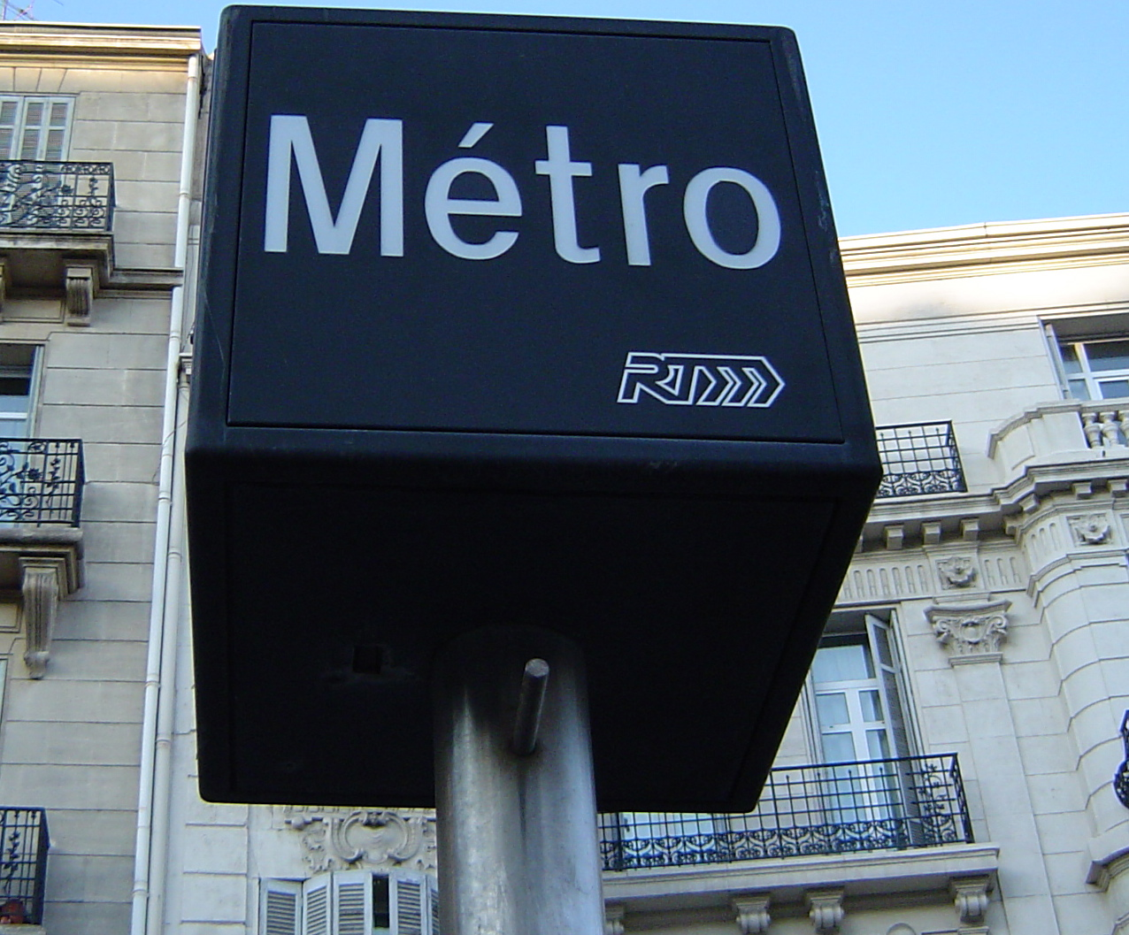 Logo of the Métro Marseille